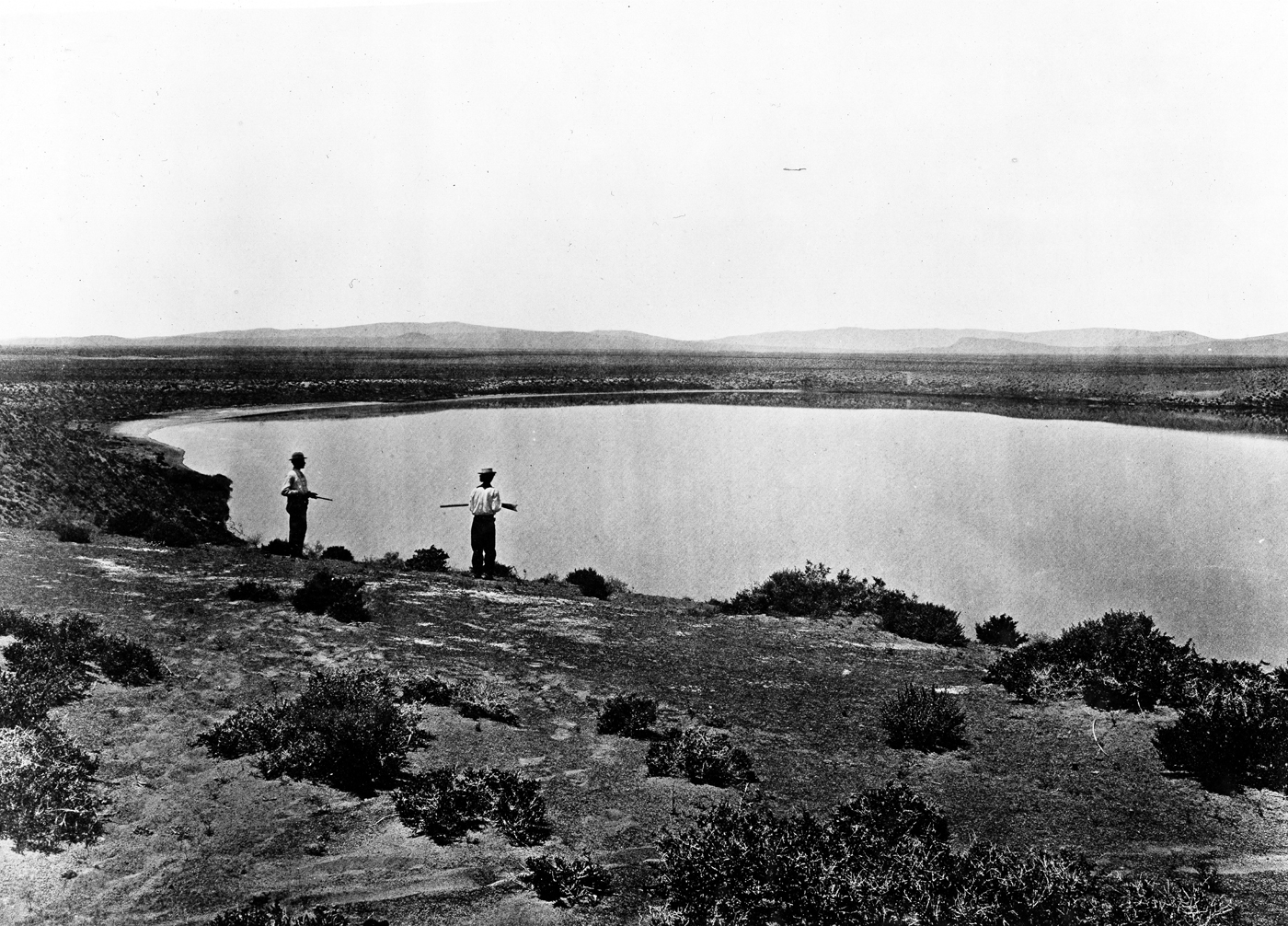 West half of Larger Soda Lake near Ragtown, Nevada. Photo by Timothy H. O'Sullivan. U.S. Geological Exploration of the Fortieth Parallel (King Survey).